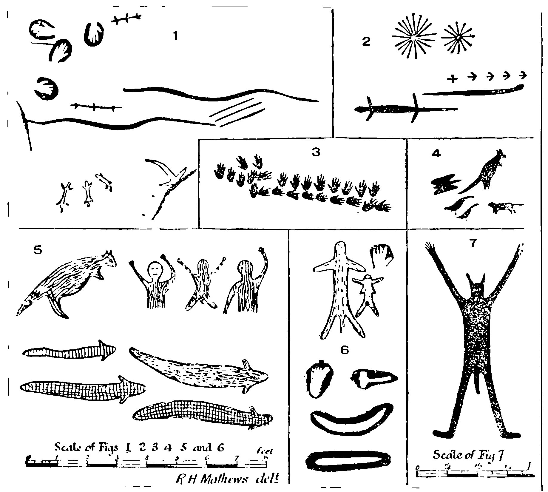 Aboriginal Rock Paintings